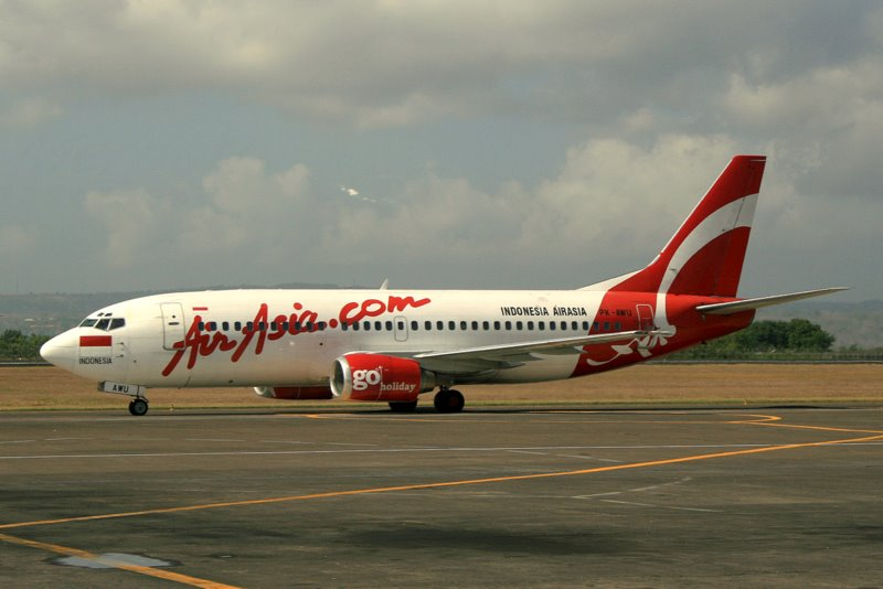 An Indonesia AirAsia Boeing 737-300 at Denpasar's Ngurah Rai International Airport. Digital photo of PK-AWU taken by YSSYguy on 29 September 2008 and uploaded for use in the Indonesia AirAsia article. Image edited using Picasa software. YSSYguy (talk) 18:28, 11 June 2010 (UTC)